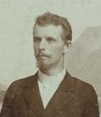 Teachers in Razgrad Men School 1898